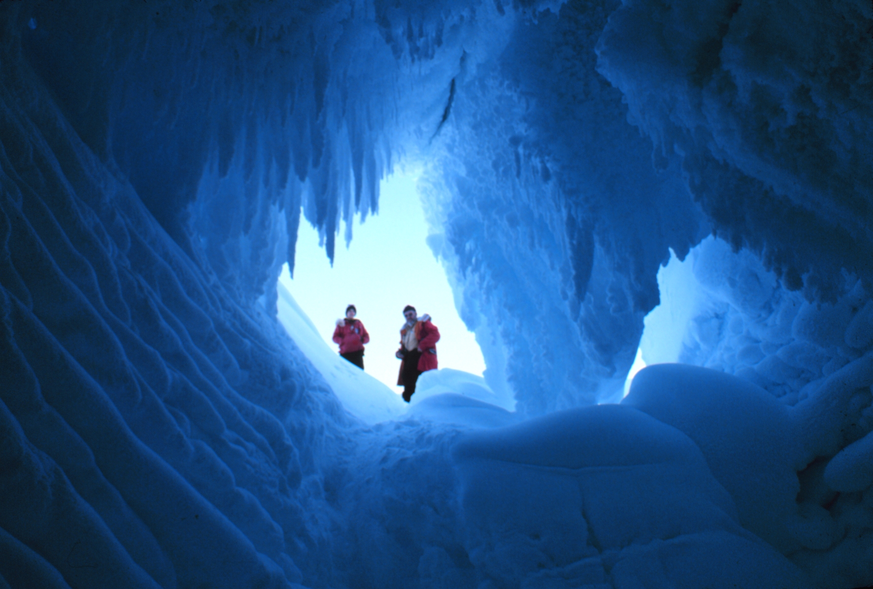 Ice cave in Erebus Ice Tongue, Ross Sea, Antarctica.